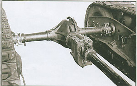 Soviet experimental half-track car GAZ-VM during the state tests, rear axle.